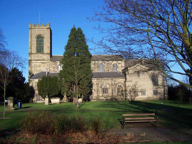 Photograph of St. Augustine's Church, Rugeley, Staffordshire